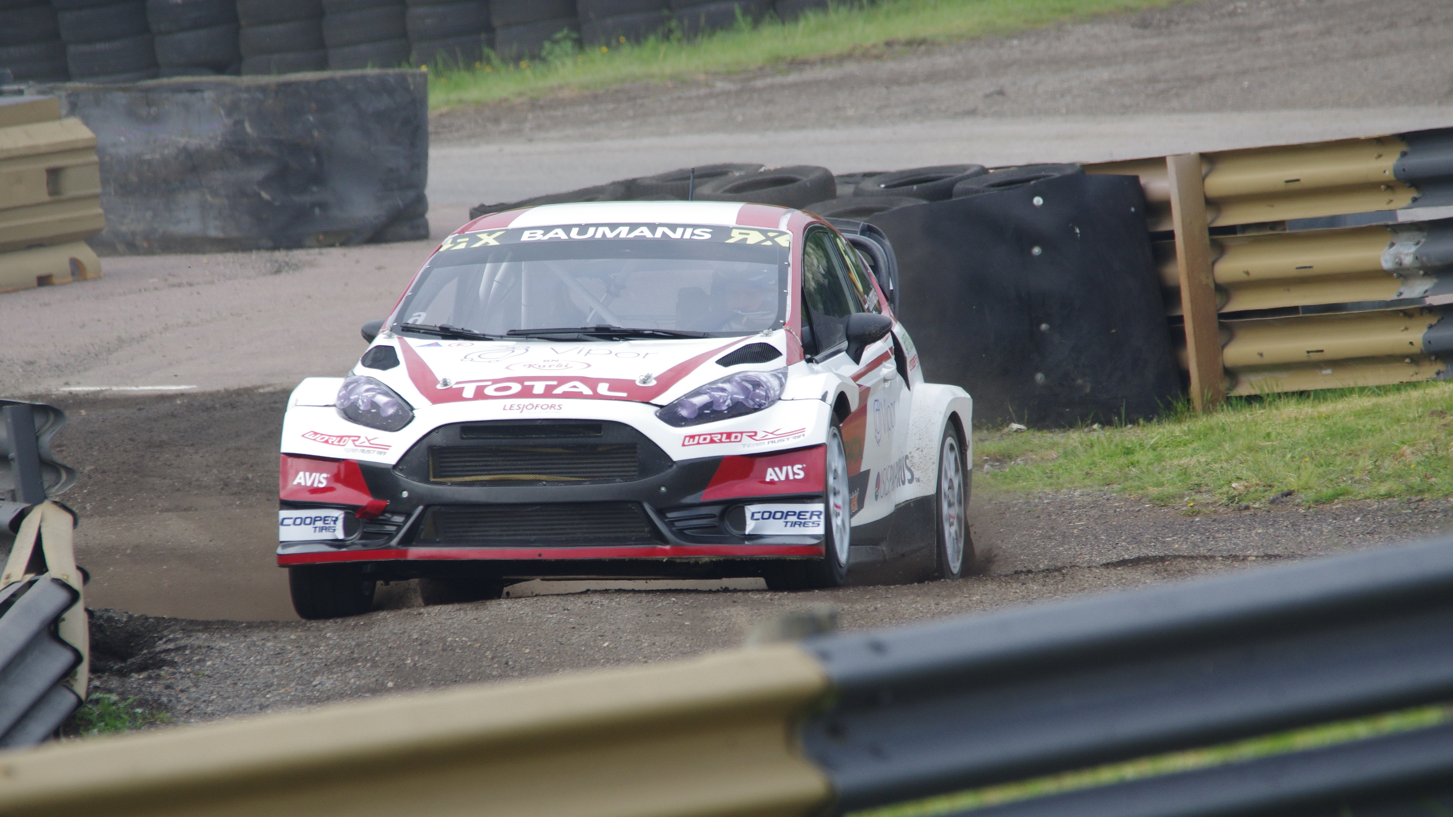 Exit from the joker lap